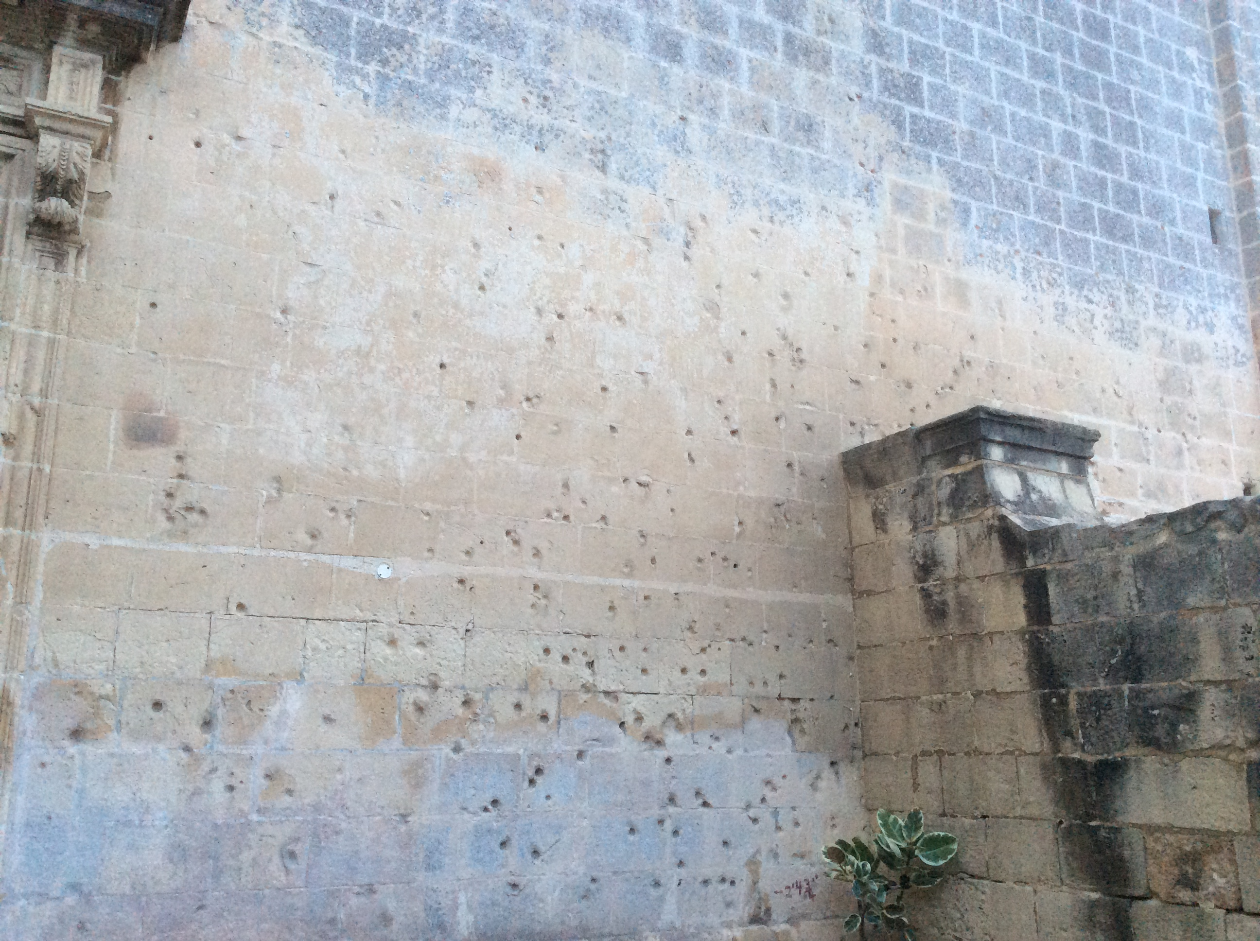 St Mary's Parish Church This media is about Maltese cultural property with inventory number 00293.